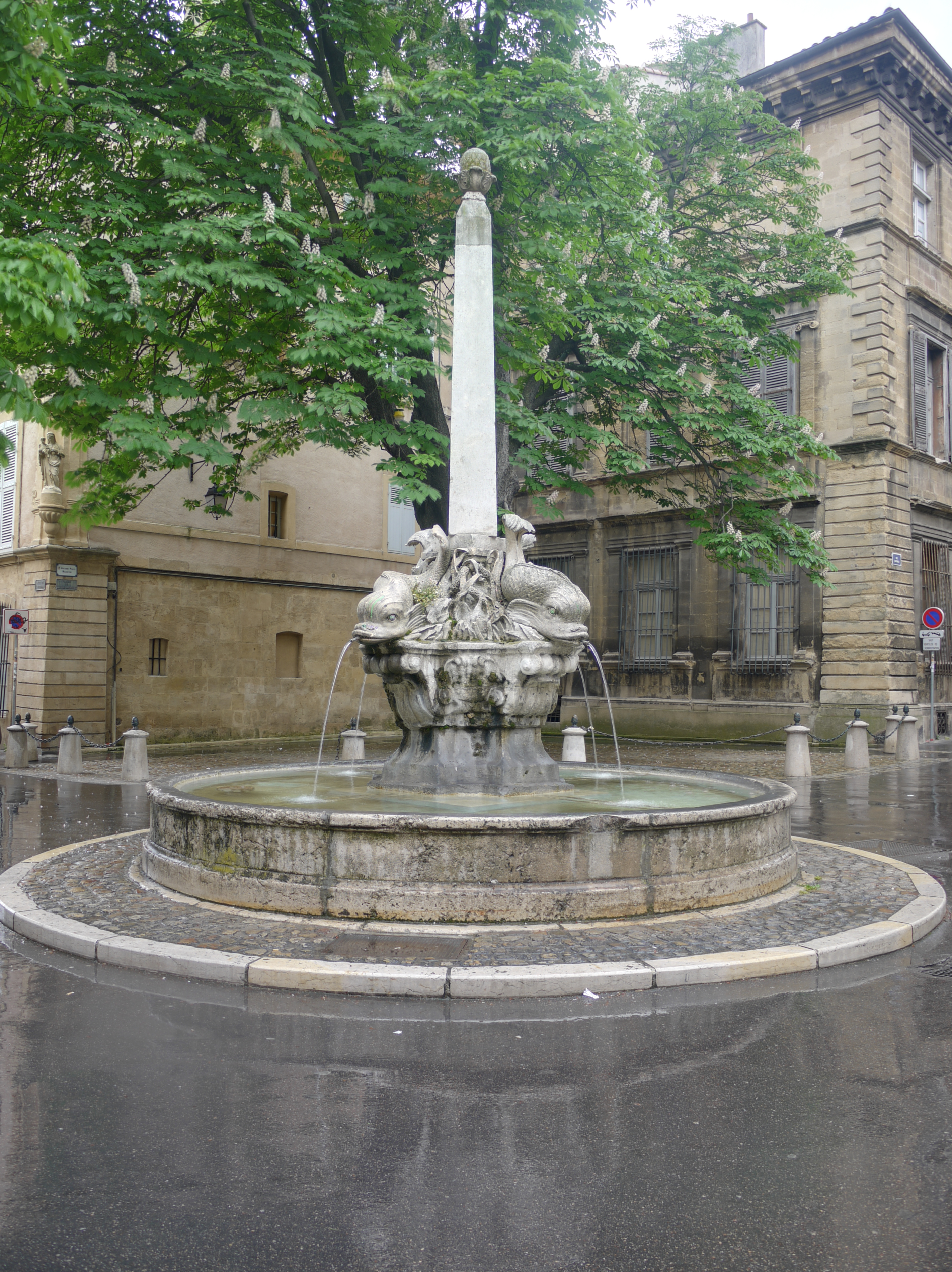 Fountain of the Quatre Dauphins in Aix-en-Provence in France.